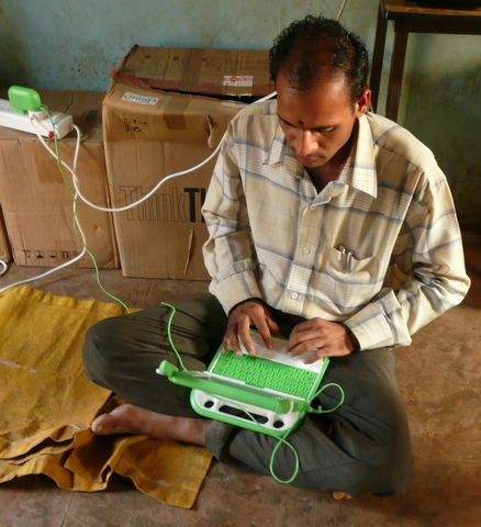 Teacher with XO, Khairat (India)